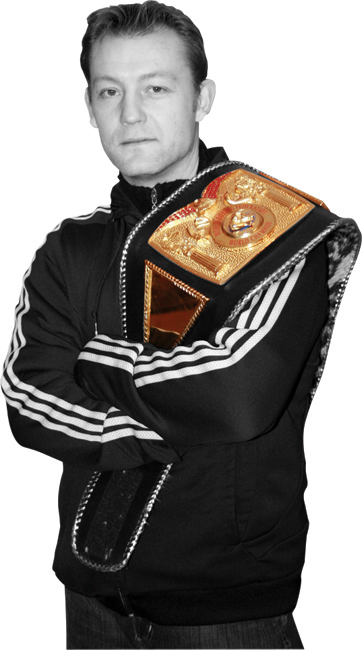 Cornelius Carr with winning belt